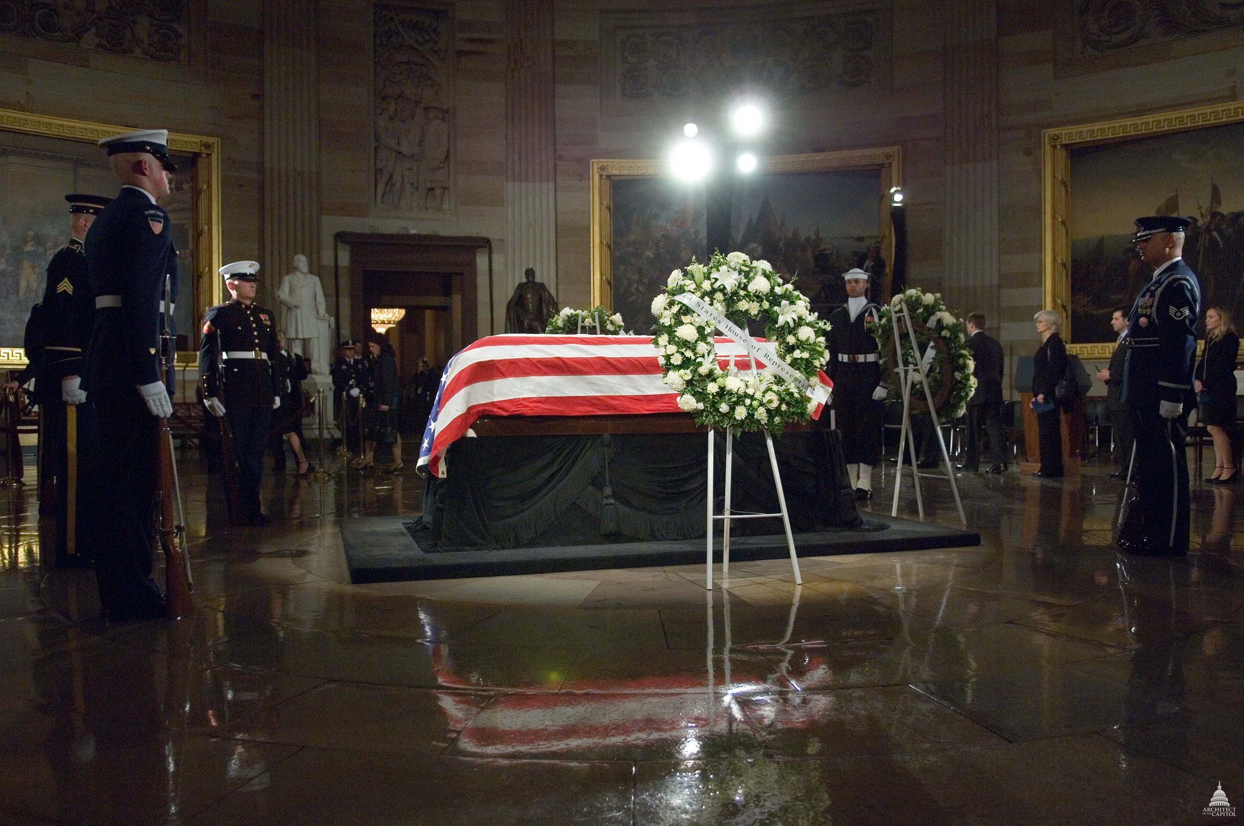 In this photo: President Gerald R. Ford, Jr. lay in state from December 30, 2006 - January 2, 2007. The Rotunda of the U.S. Capitol has been considered the most suitable place for the nation to pay final tribute to its most eminent citizens by having their remains lay in state or in honor. The casket rests on the the catafalque, a platform that supports the casket of all those who have lain in state in the Capitol Rotunda since Abraham Lincoln 1865. These occasions are either authorized by a congressional resolution or approved by the congressional leadership, when permission is granted by survivors.